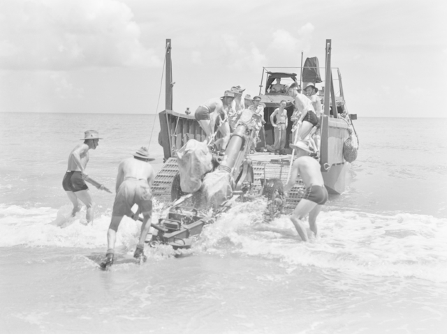 Australian 13th Field Regiment gunners load a 25-pounder artillery piece onto a landing craft around Cairns, Queensland, January 1944